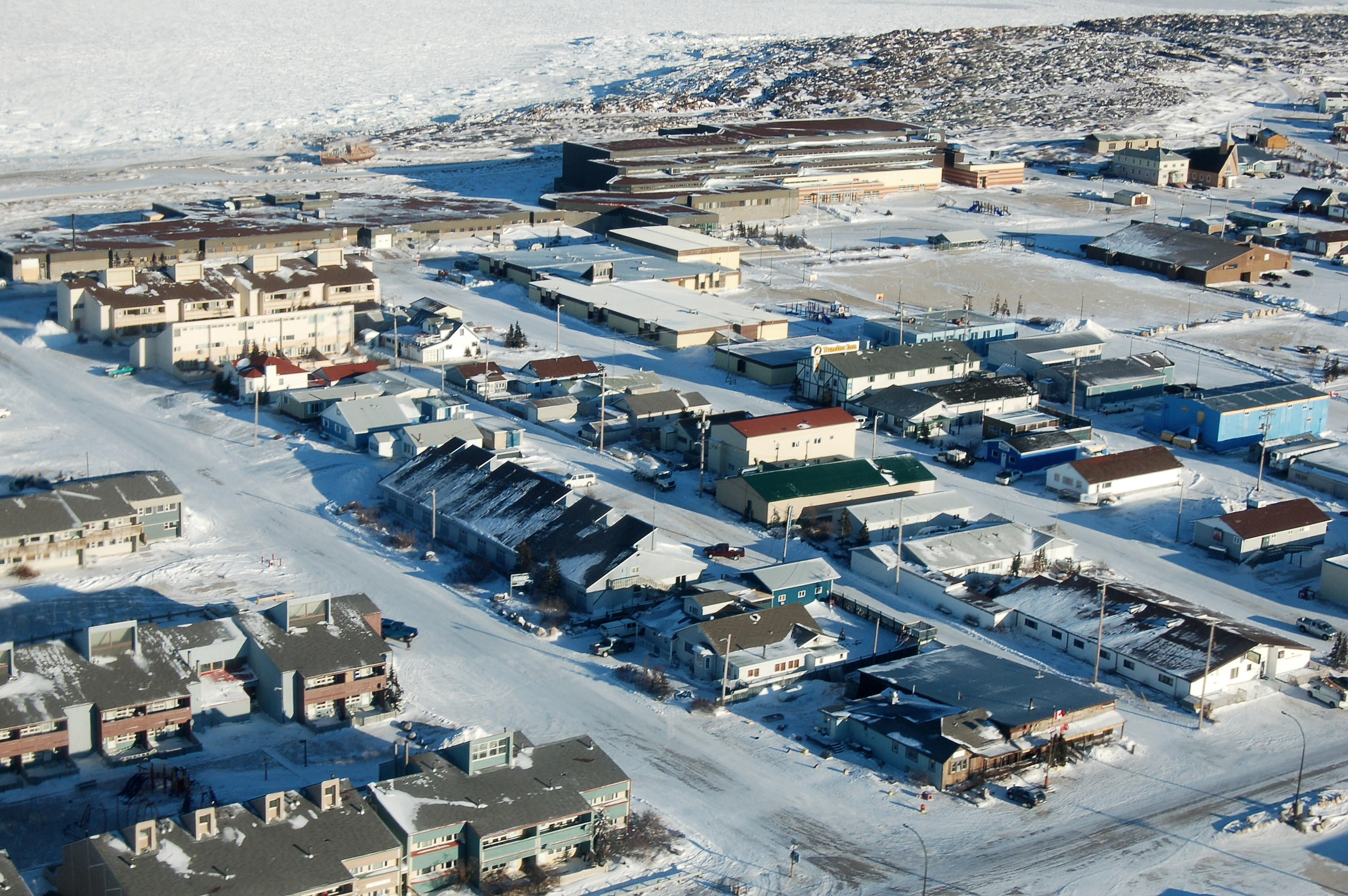 Town of Churchill, Manitoba, viewed from a helicopter.